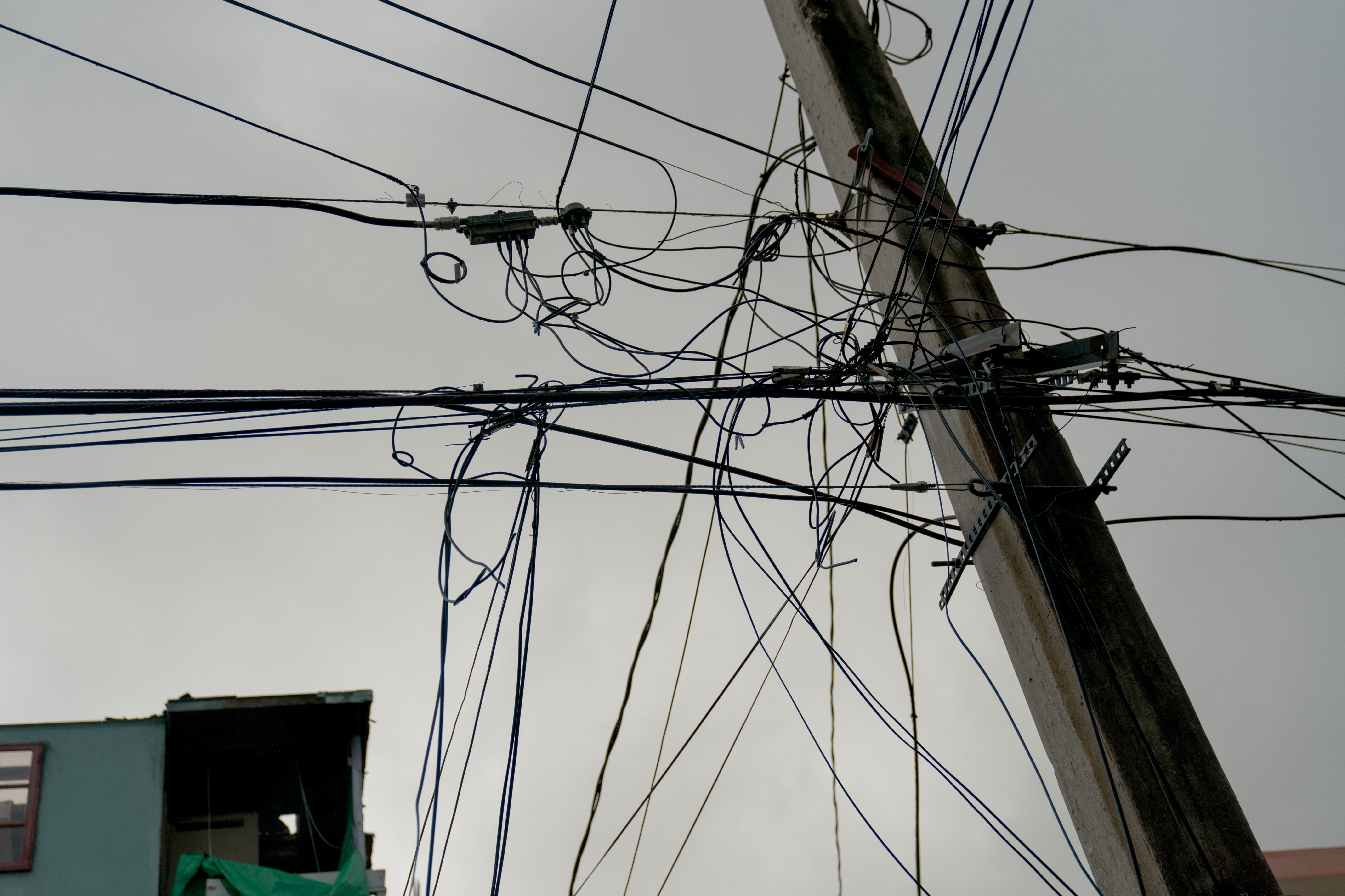 Tangled power lines in Puerto Rico